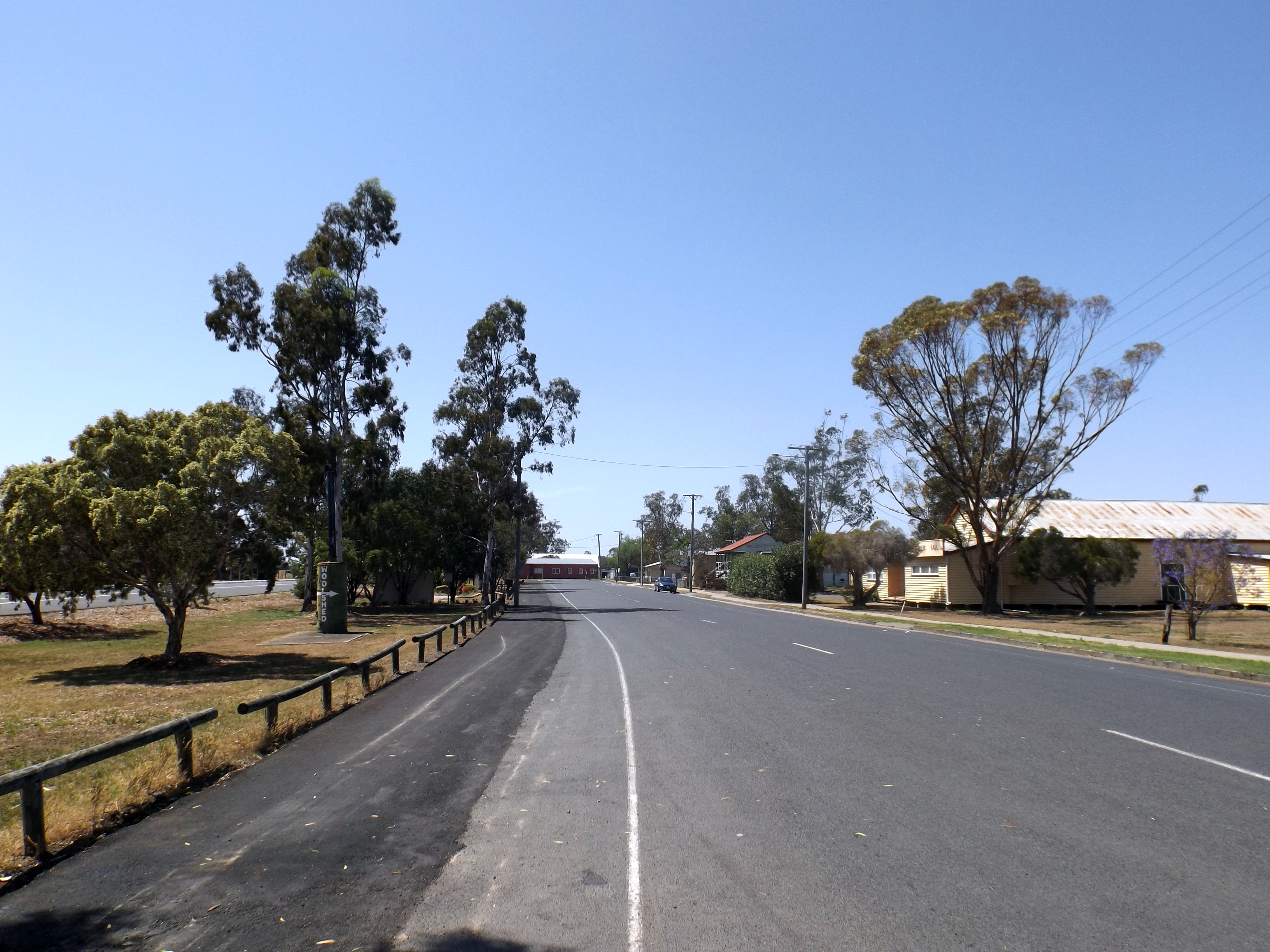 Jondaryn Memorial Park, service road and public hall at Jondaryan, Queensland, Australia.